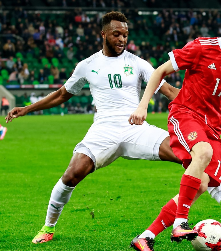 Cheik Doukouré